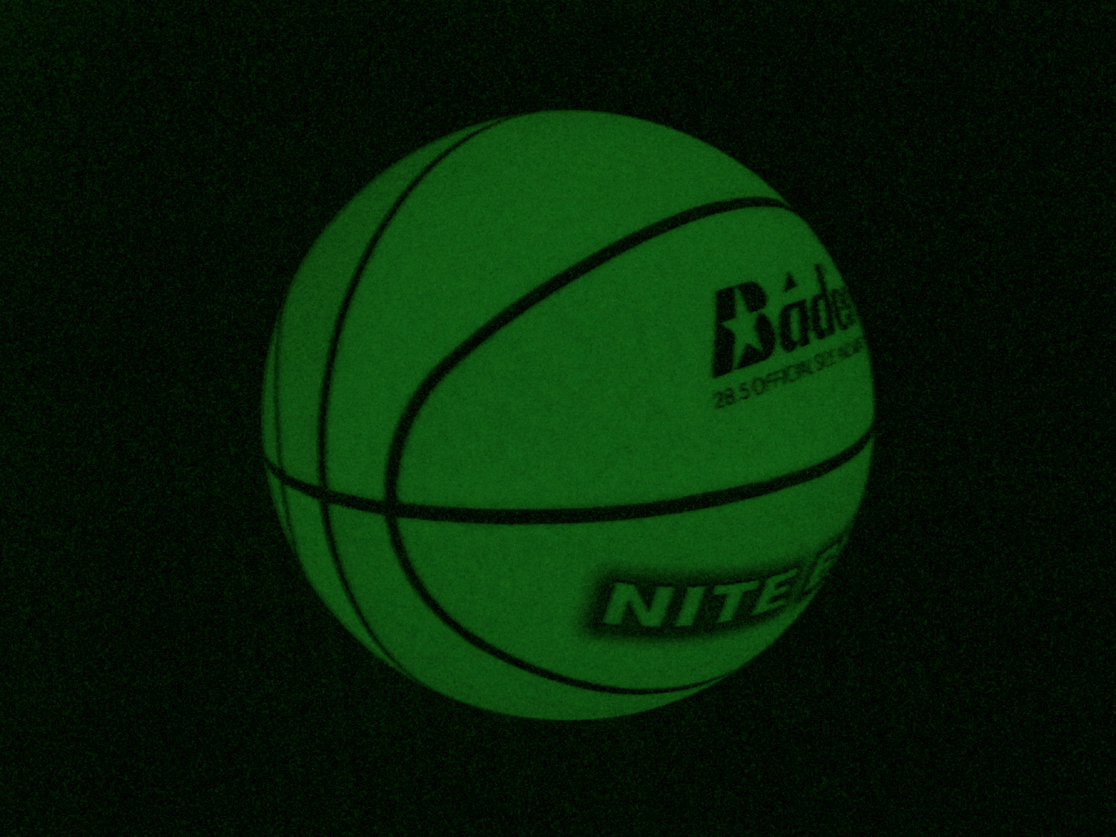 A luminous basketball ball glowing in the dark.